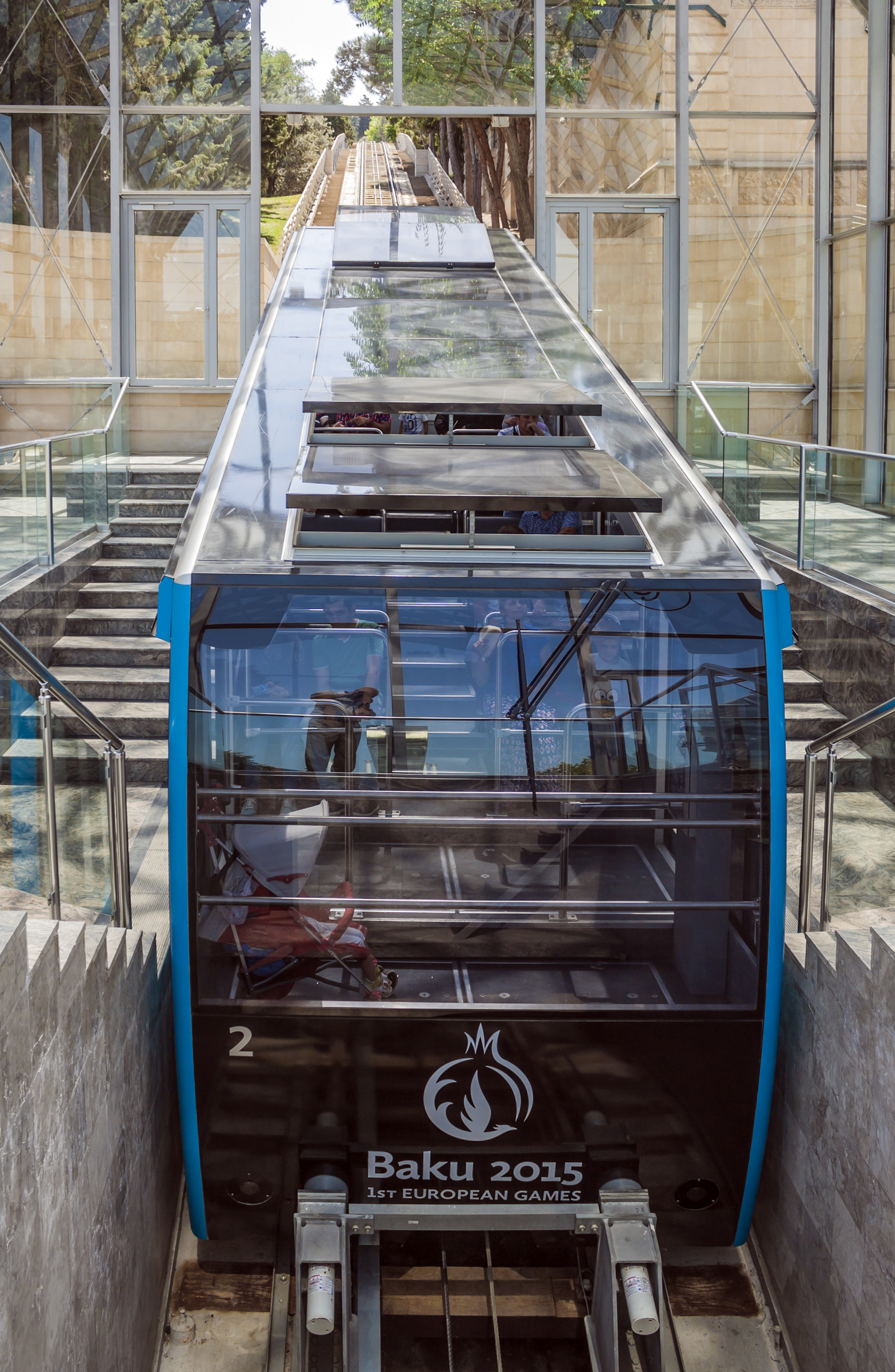 The car of the Baku funicular station